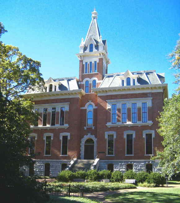 Old Science Hall